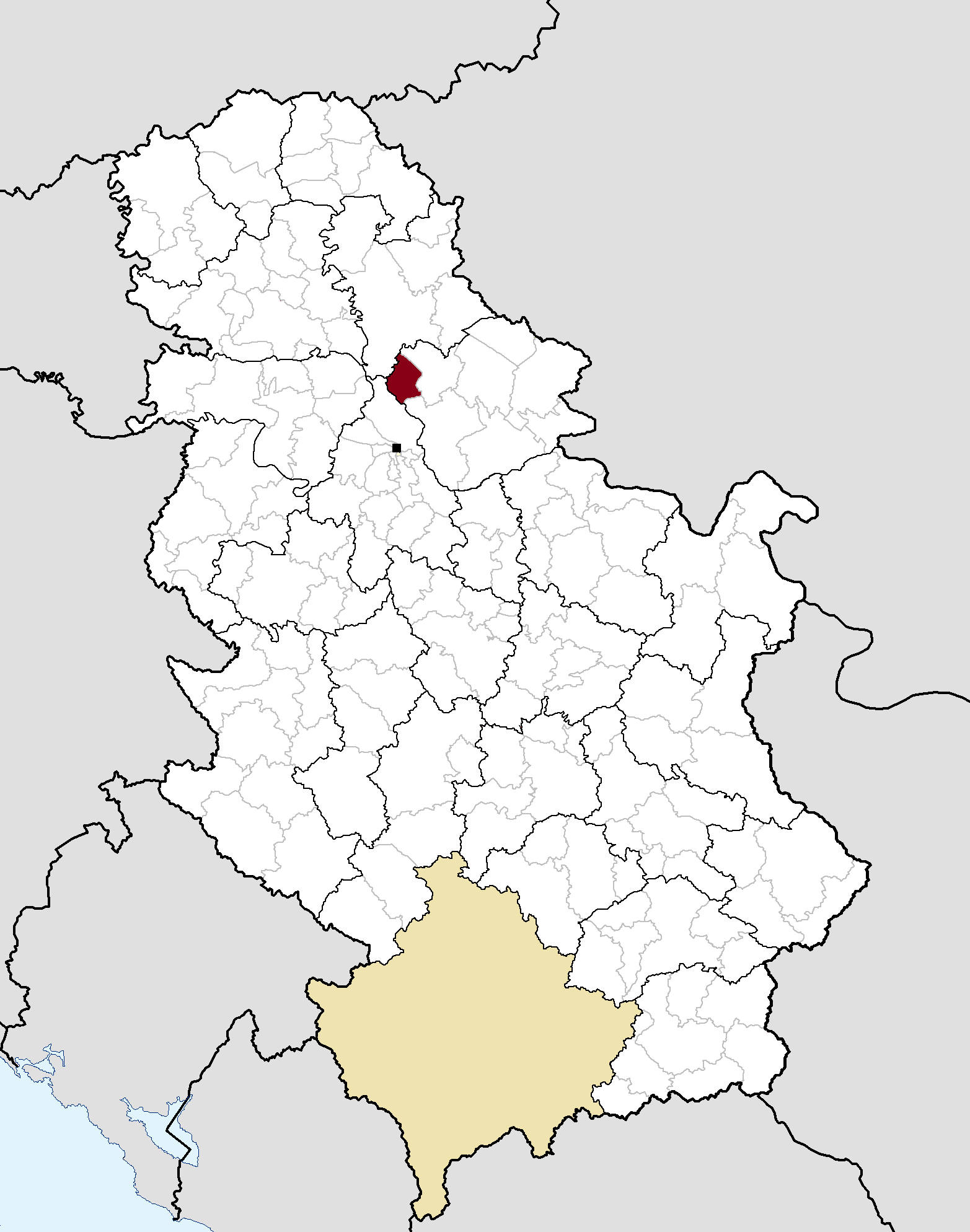 Municipal location in Serbia